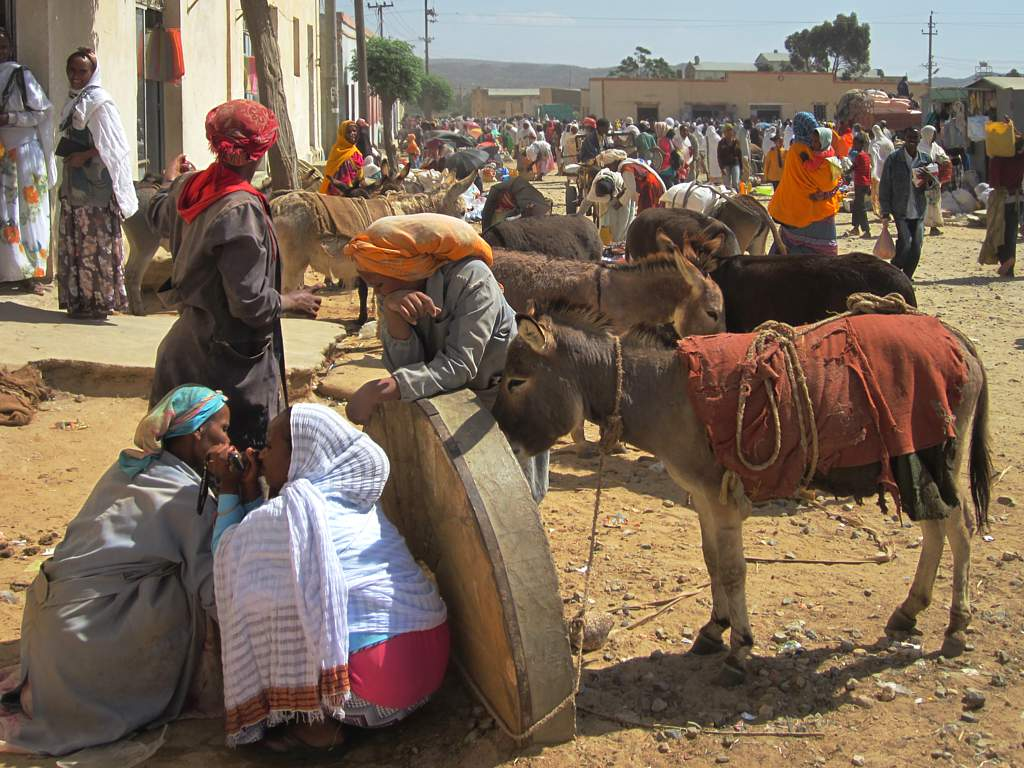 Beasts of burden at the market in Dekemhare, Eritrea.